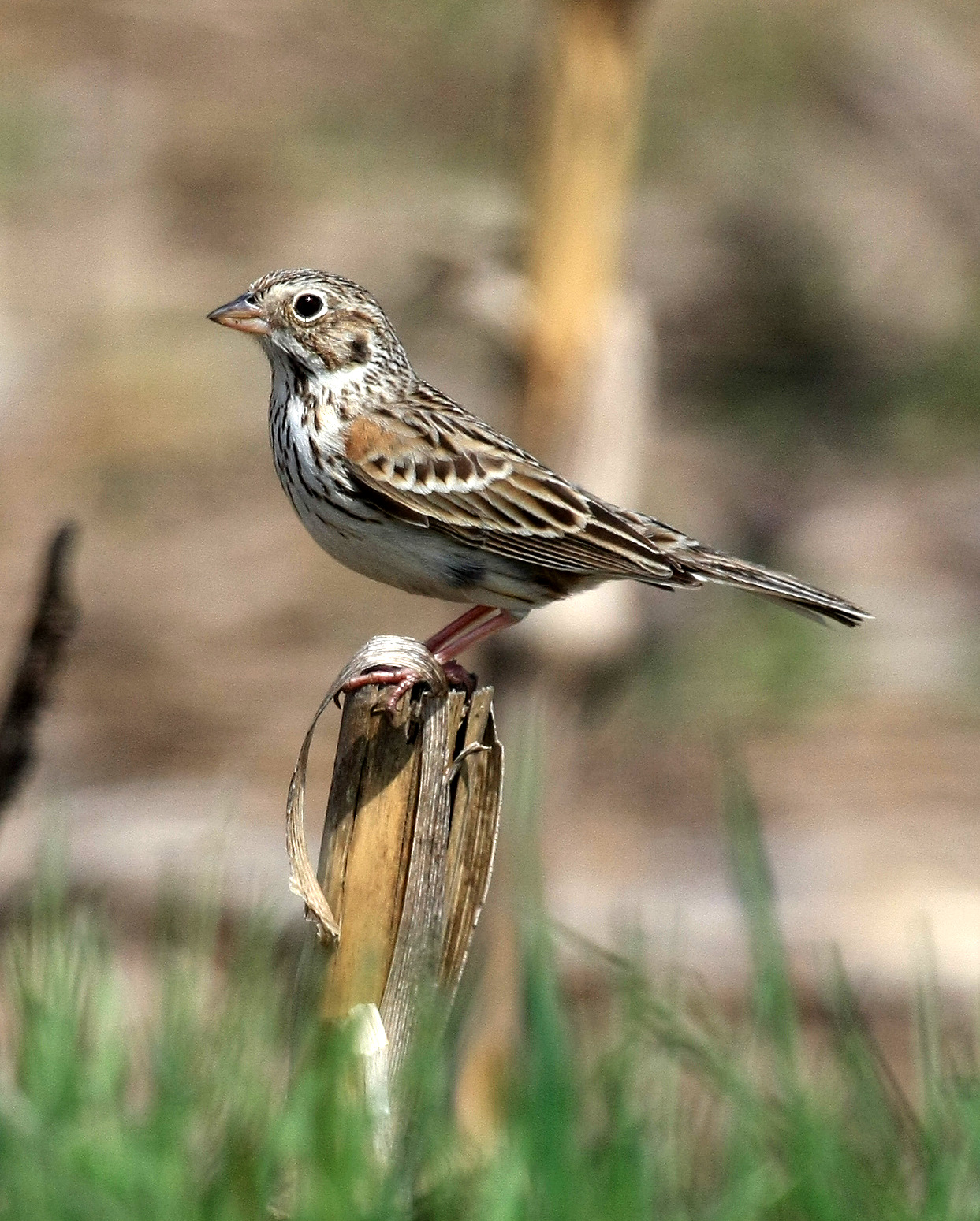 A Vesper Sparrow in USA.